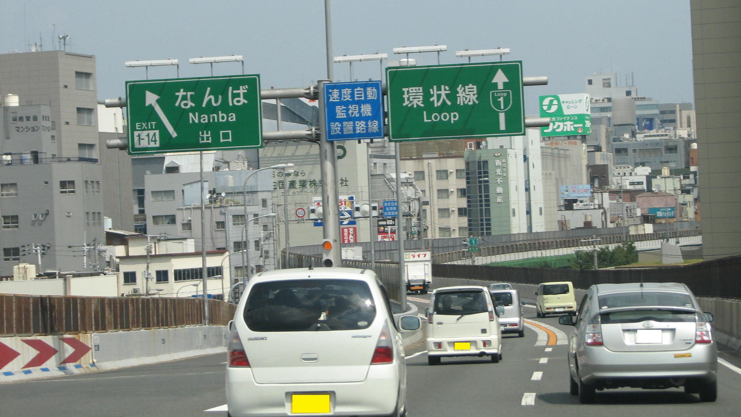 Hanshin Expressway Namba IC